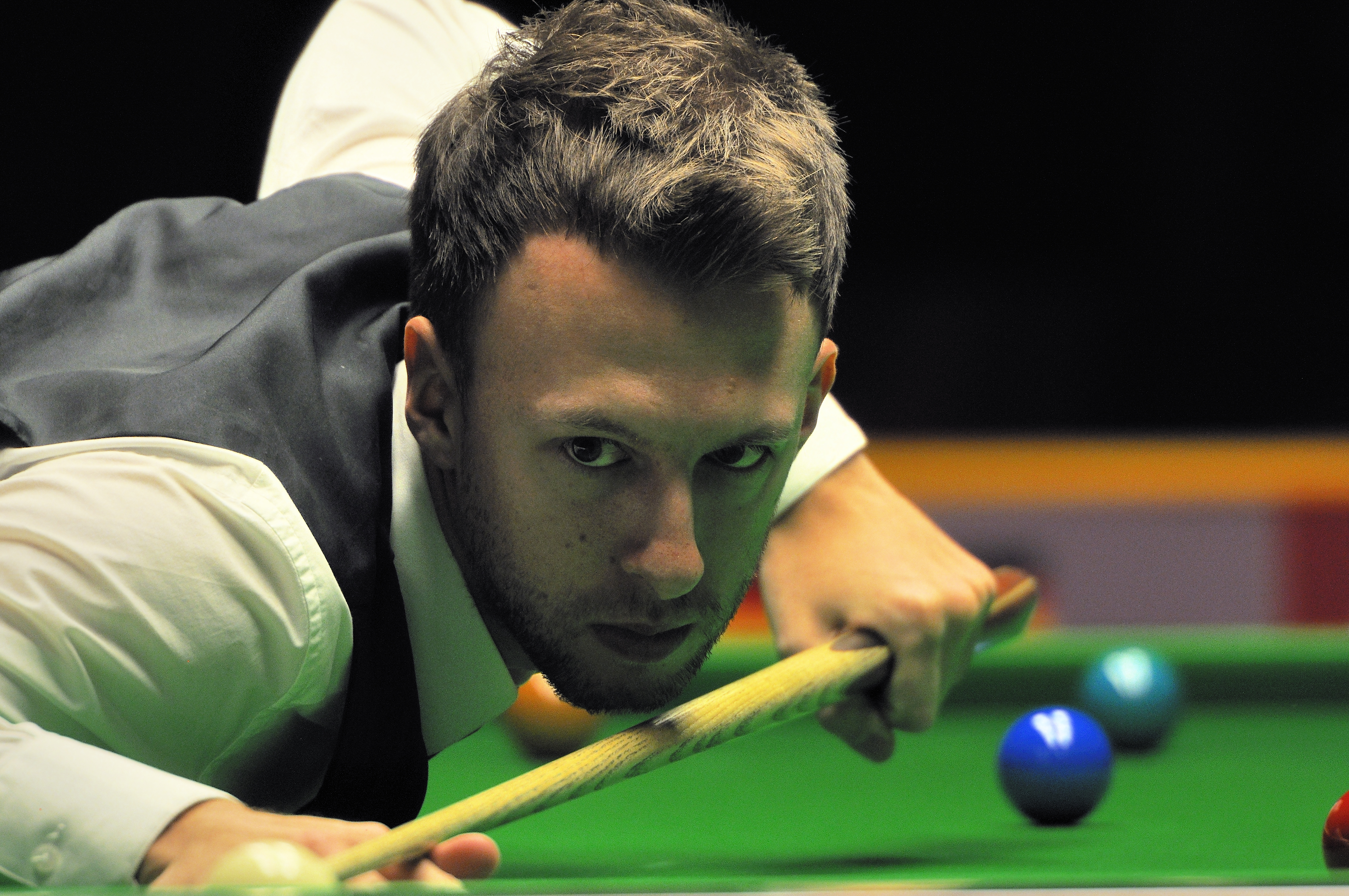 Picture taken in Berlin during the Snooker German Masters in 2014. Judd Trump.